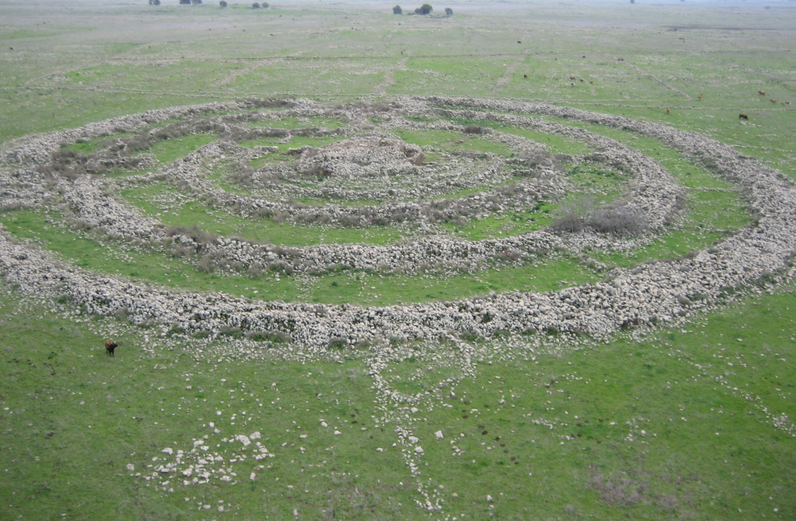 Gilgal Refā'īm is an ancient megalithic monument in the Golan Heights (Early Bronze Age II, 3000–2700 BCE).